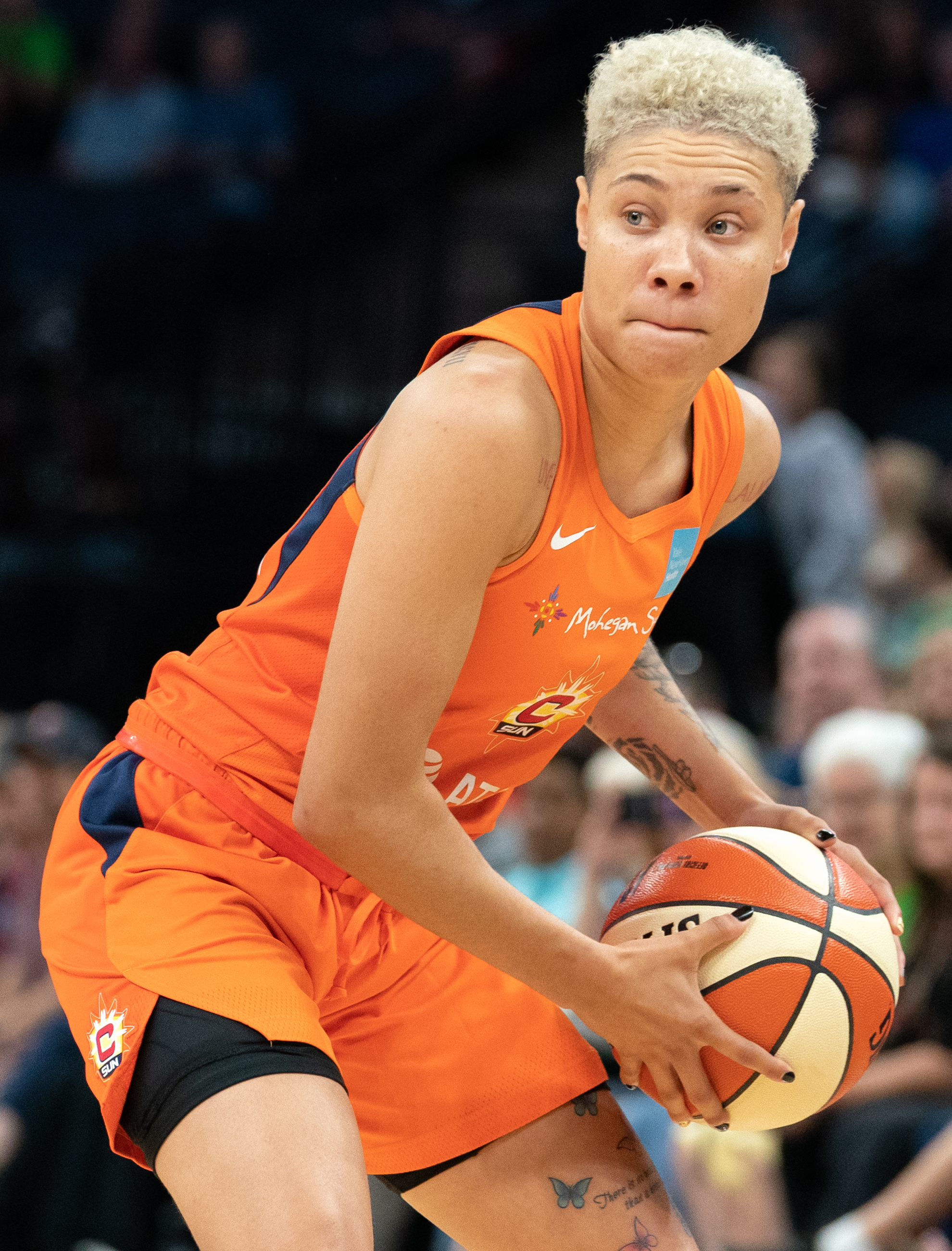 Connecticut Sun player Natisha Hiedeman in a game against the Minnesota Lynx